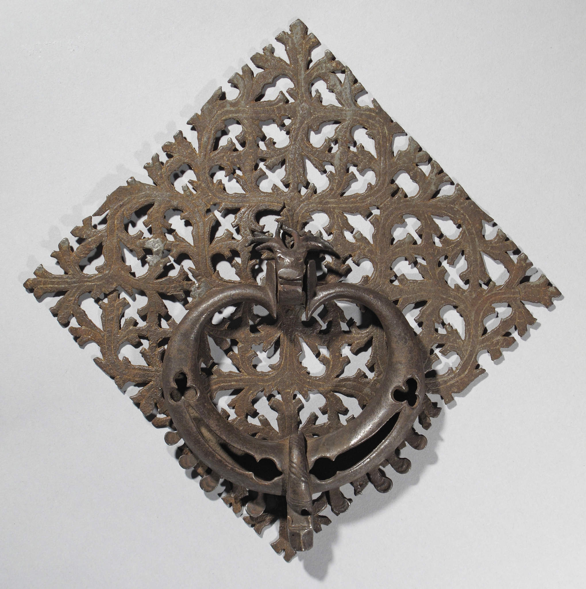 European; Door knocker; Metalwork-Iron